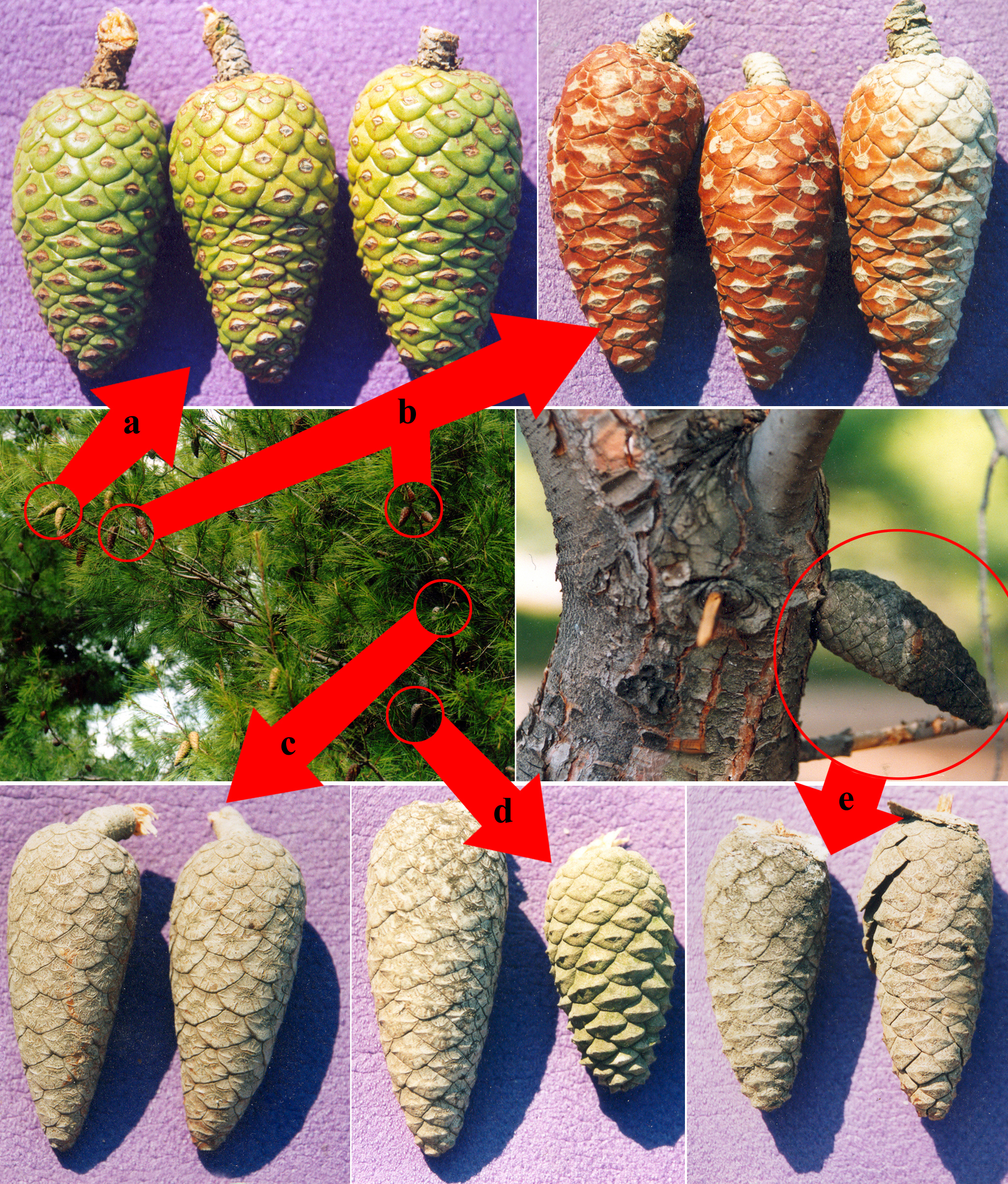 The cones of Aleppo pine and their position in the crown: a) three years old cones, b) four years old cones, c) five years old cones, d) serotinous cones 6-10 years old, e) serotinous cones over 10 years old (Kassandra, Chalkidiki 1997)